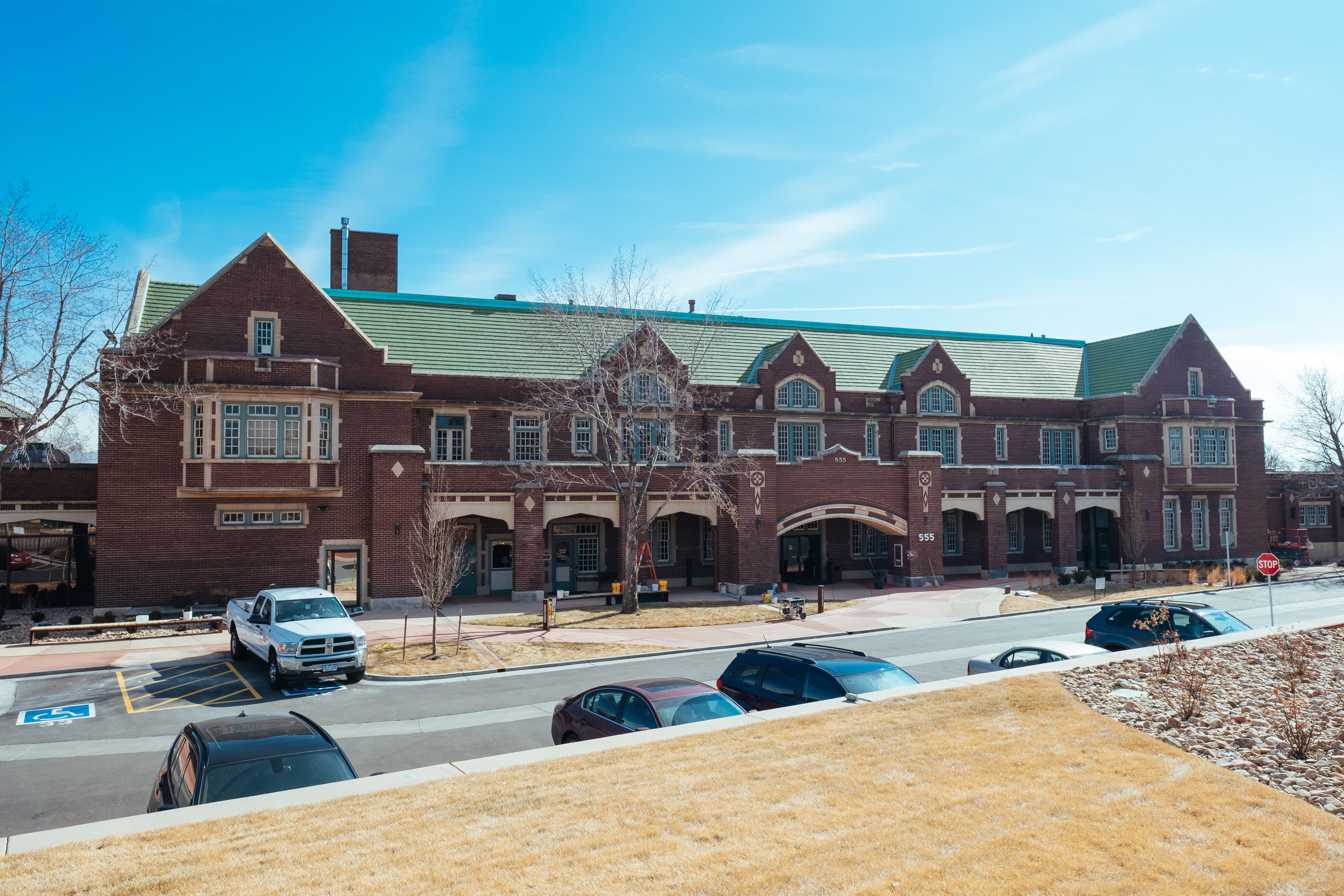 The building in its current form